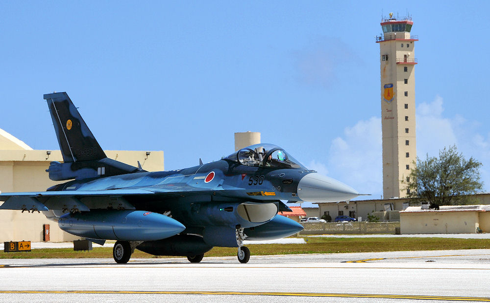 ANDERSEN AIR FORCE BASE, Guam - A Japan Air Self Defense Force F-2A fighter taxis to join other F-2s which arrived here Jan. 30 for the 2009 Cope North Exercise. The F-2s are from the 6th Squadron, Tsuiki Air Base, Japan, and are participating in Cope North, an exercise designed to enhance U.S. and Japanese air operations in defense of Japan. (U.S. Air Force photo by Airman 1st Class Courtney Witt) ↑ 日米エアフォース友好協会 ↑ Cope-North 09-1 グアム参加航空機帰国 ↑ Japan Air Self Defense Force arrives for Exercise Cope North 09-1 ↑ Cope North 09-1 comes to end